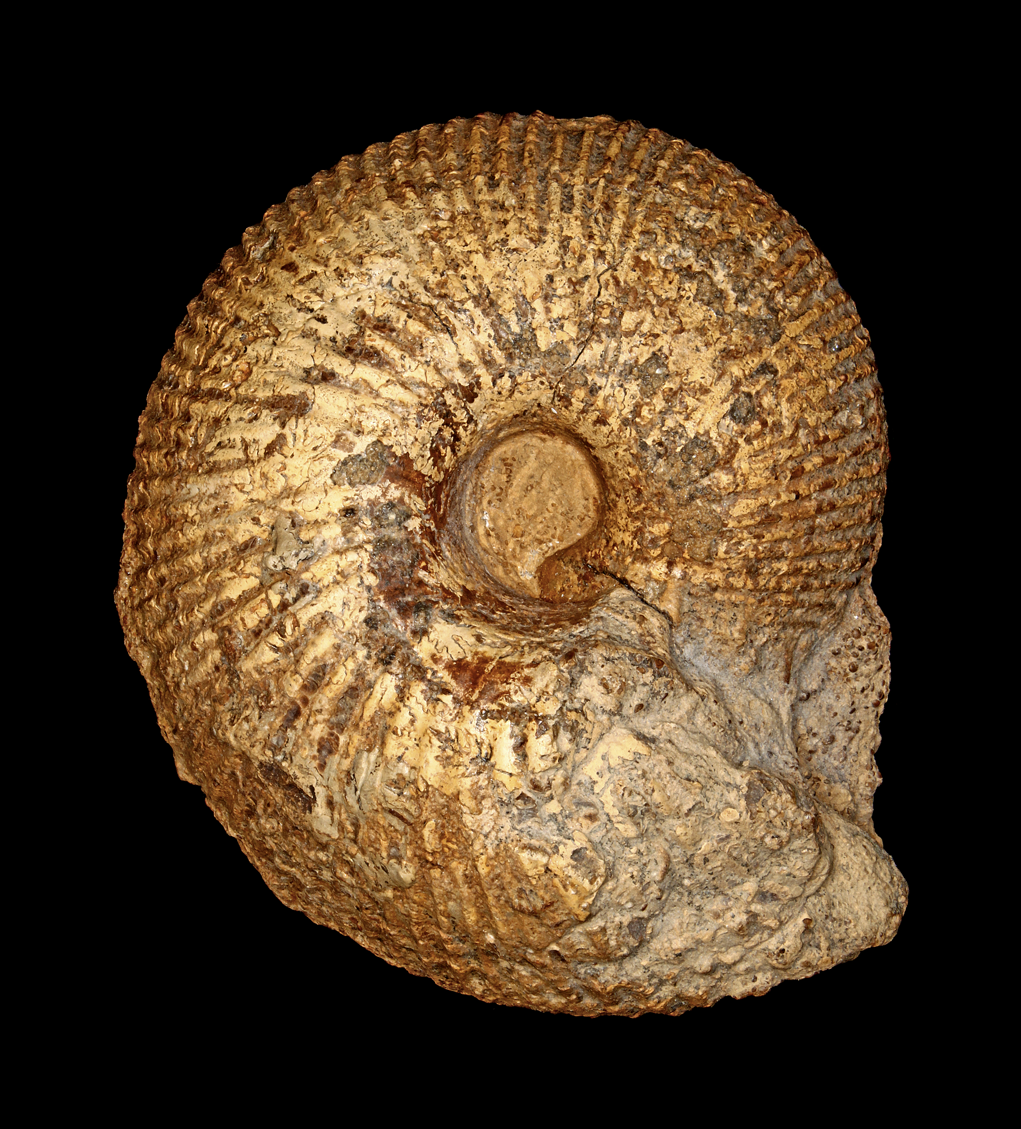 Macrocephalites rotundus, Macrocephalitidae; Diameter 8,5 cm; Lower Callovian, Middle Jurassic; Blumberg, Germany; own collection, therefore not geocoded.